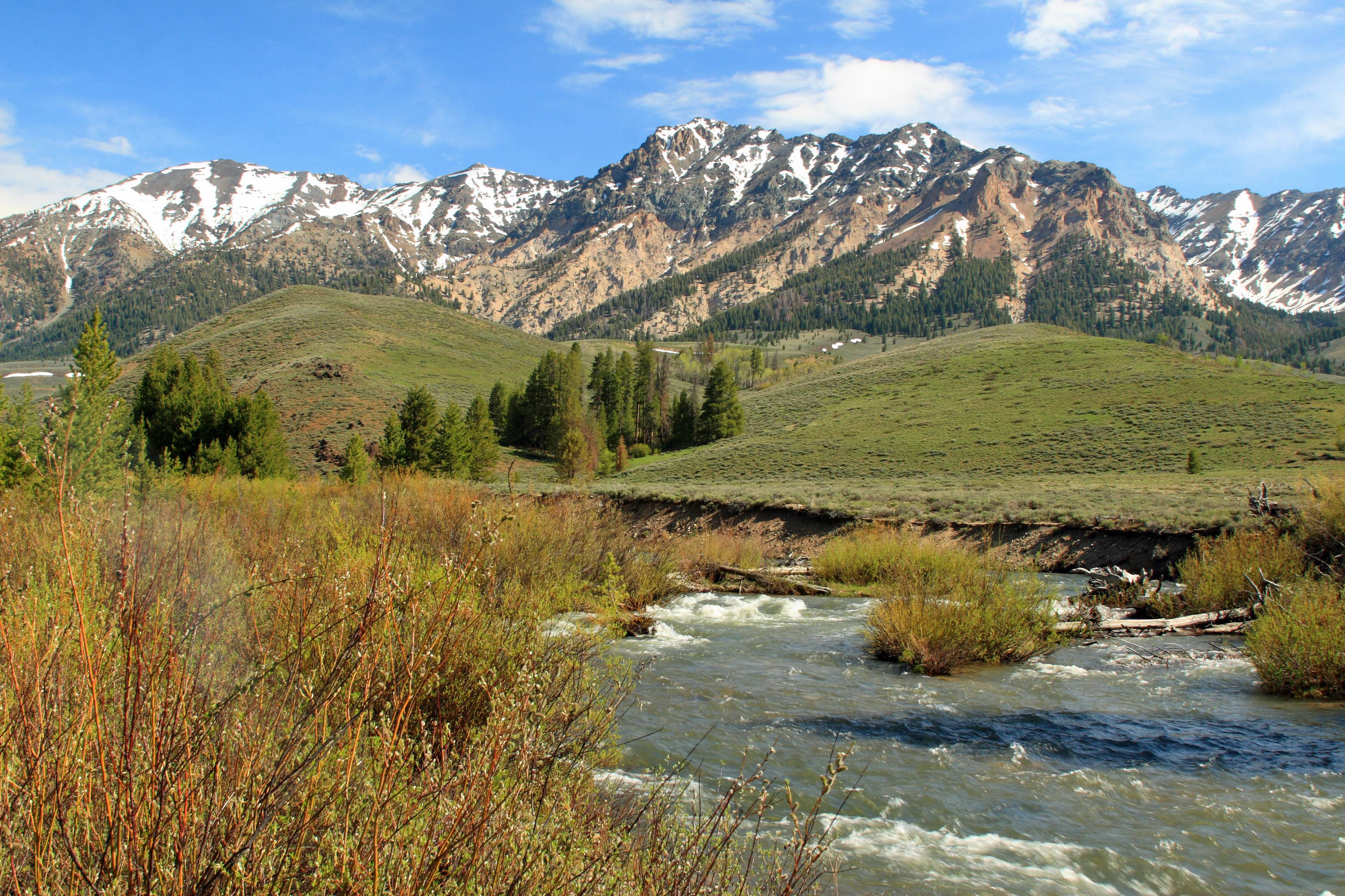 The Boulder Mountains and the Big Wood River in the Sawtooth National Recreation Area located in central Idaho, slightly northwest from Ketchum.